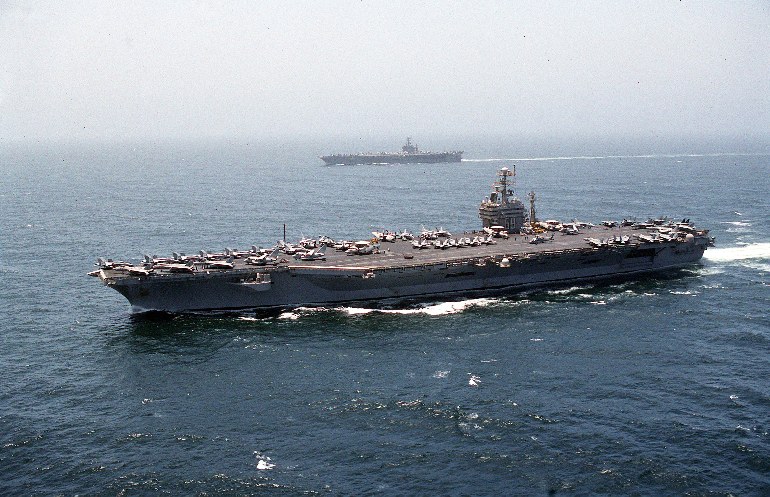 At sea aboard USS Dwight D. Eisenhower (Jul. 22, 2000) – USS Dwight D. Eisenhower (CVN 69) steams along side USS George Washington (CVN 73) while conducting turnover operations in the Indian Ocean. George Washington is heading north to support Operation Southern Watch in the Arabian Gulf. U.S. Navy Photo by Chief Photographers Mate Gregory S. McCreash. (RELEASED)